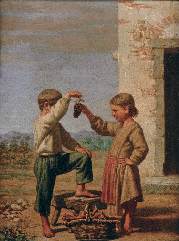 Children with grapes